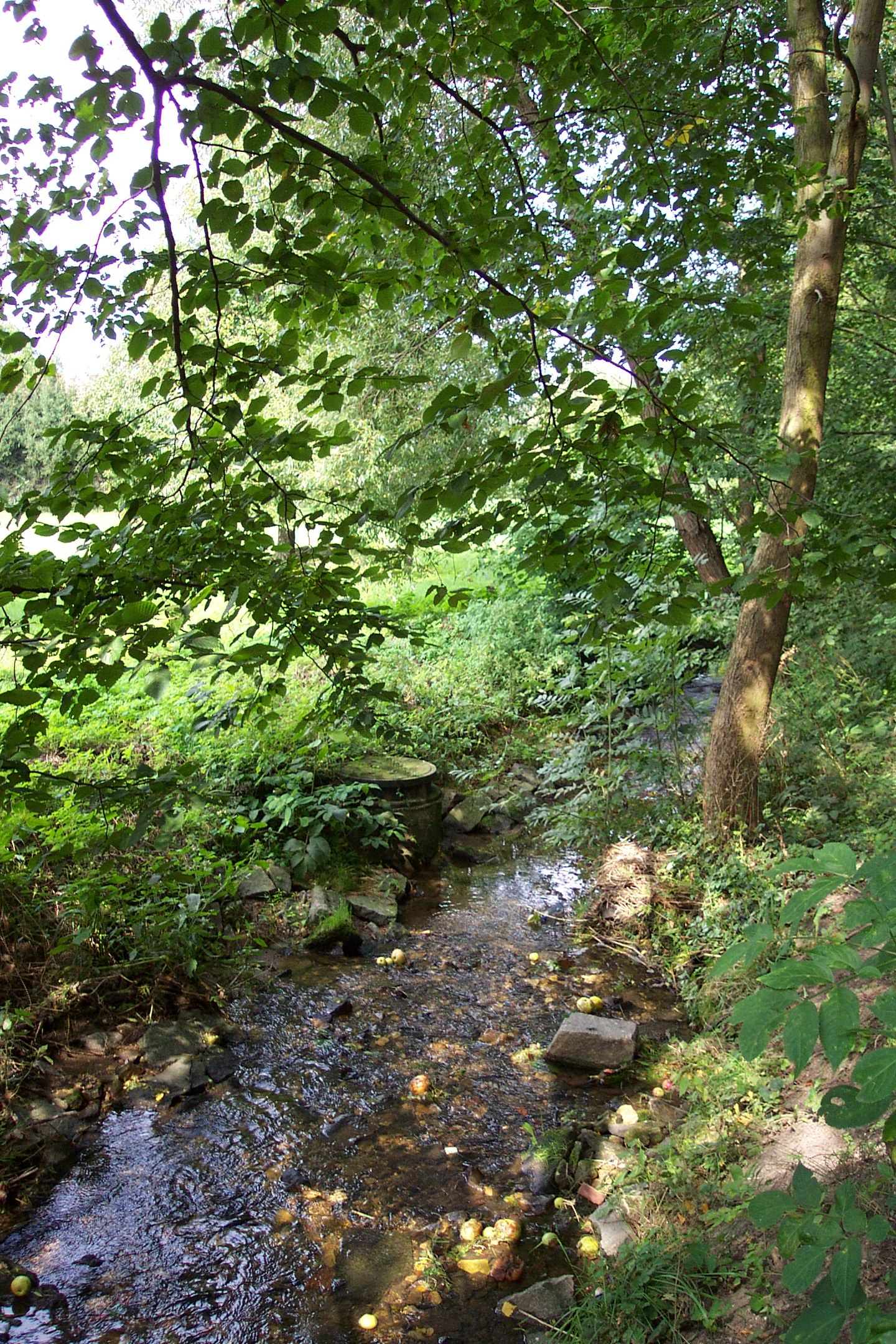 Spring in Přední Kopanina, Prague